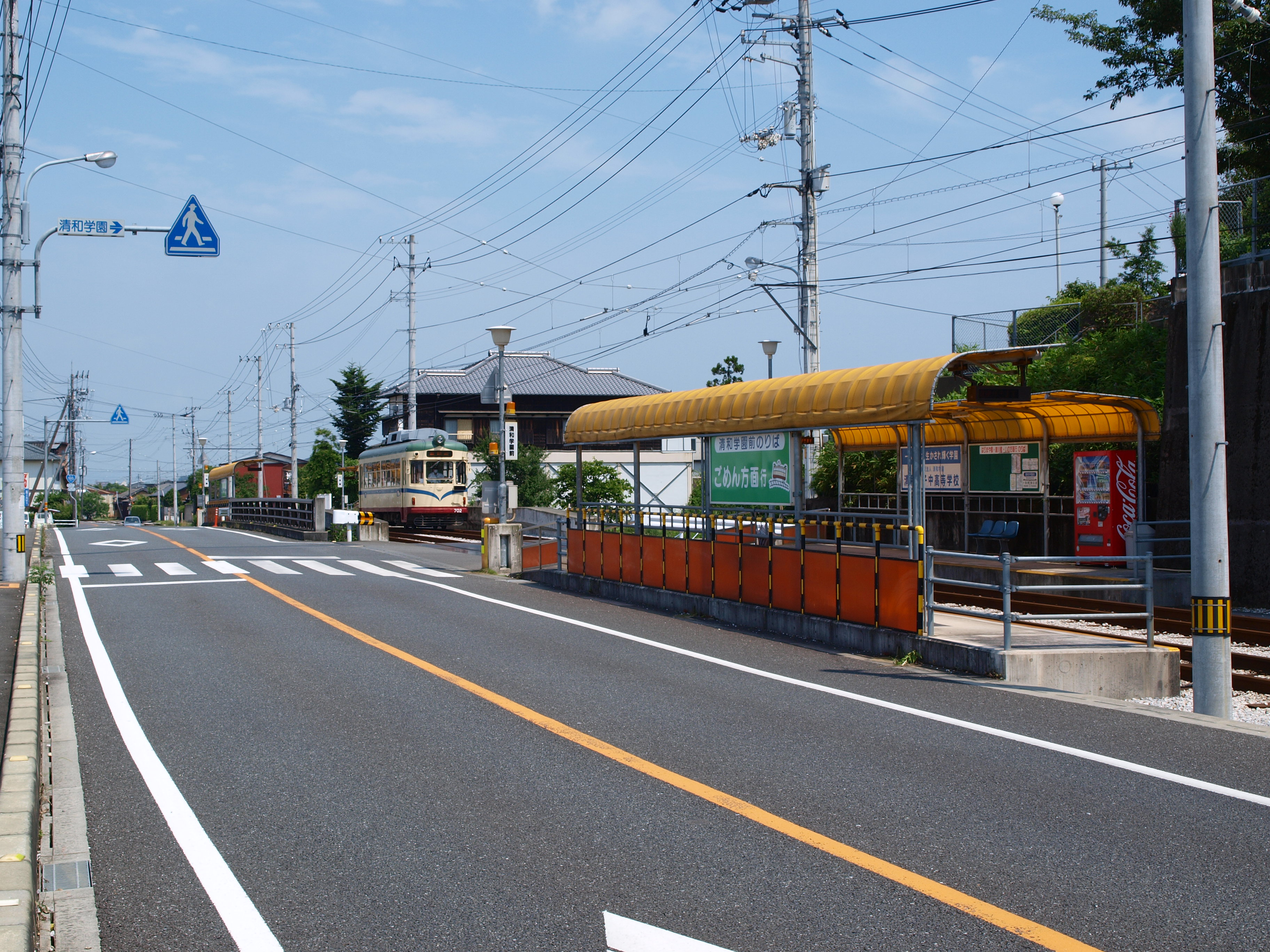 Tosa Electric Railway Seiwagakuen-mae station, Kochi, Japan